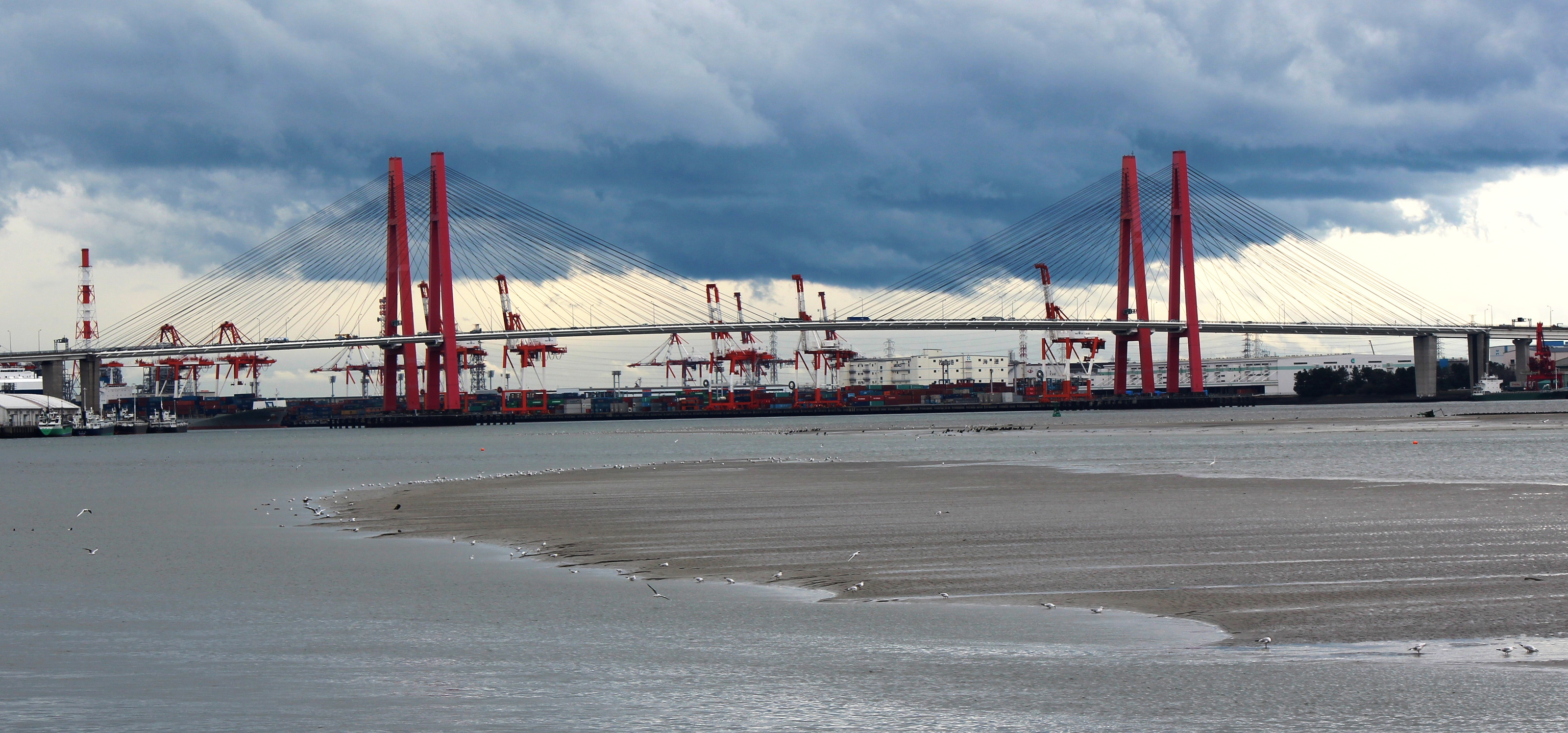 Meiko Nishi Bridges from Inae Park around Port of Nagoya